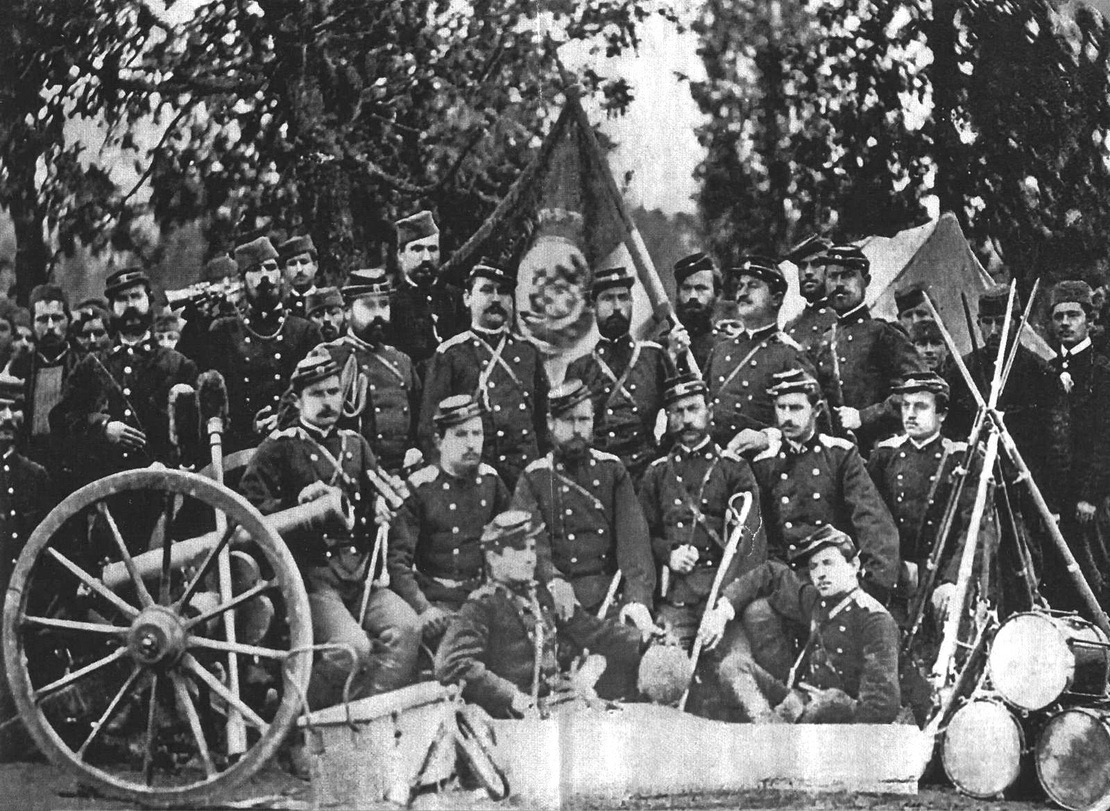 Serbian military camp during the Serbo-Turkish War (1876-1878)